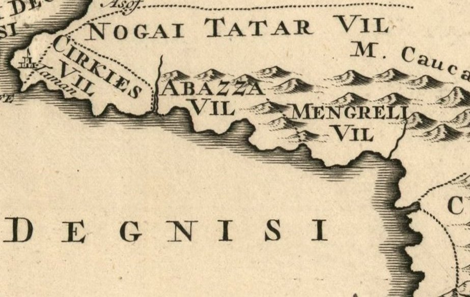 Mappa dell'Impero Ottomanno / composta da Abubekir Efendi.